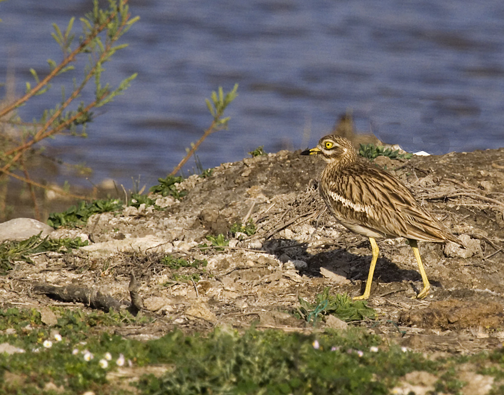 Triel (Burhinus oedicnemus) taken at Mallorca (Spain), Europe.